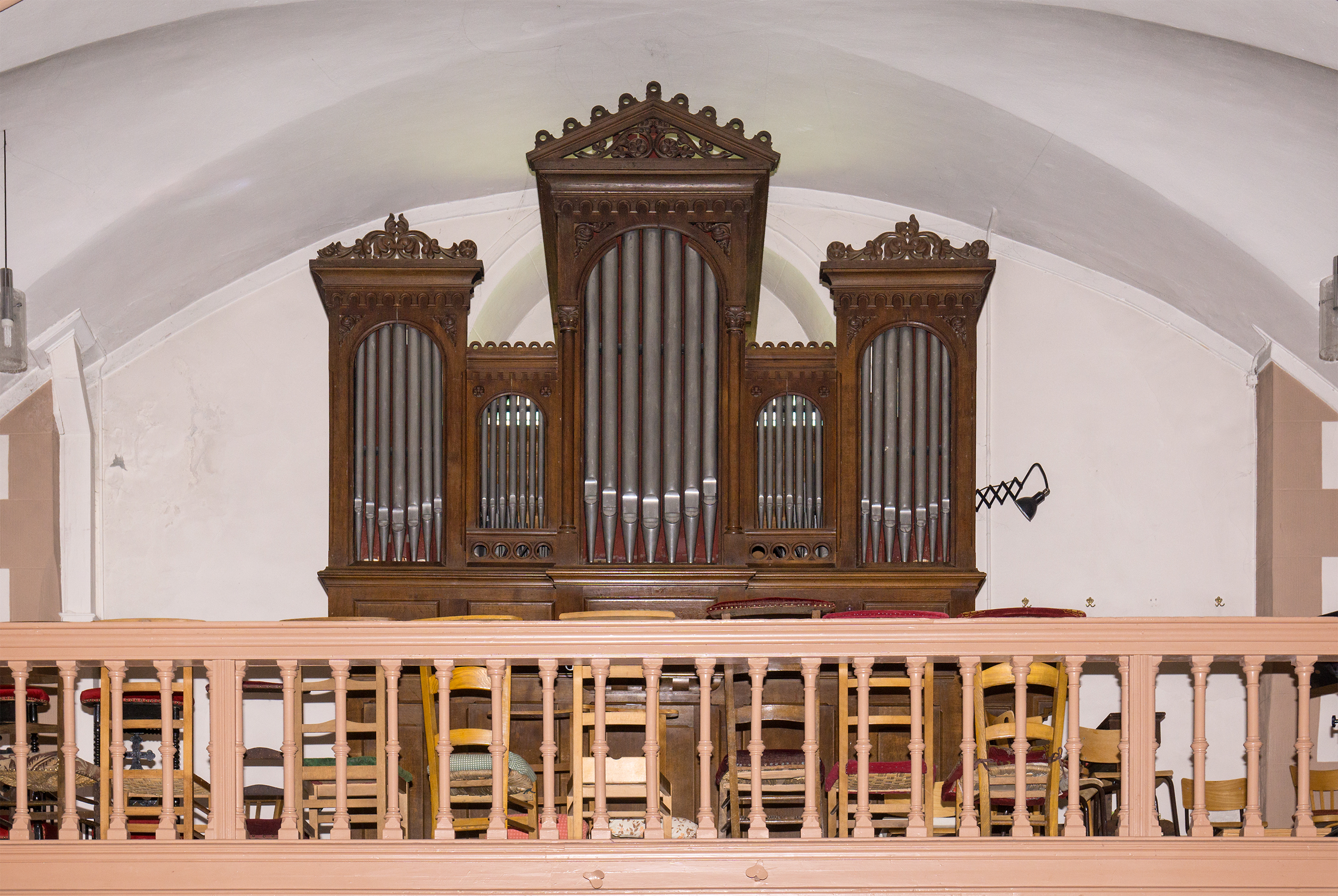 The pipe organ in the church of Boulaide